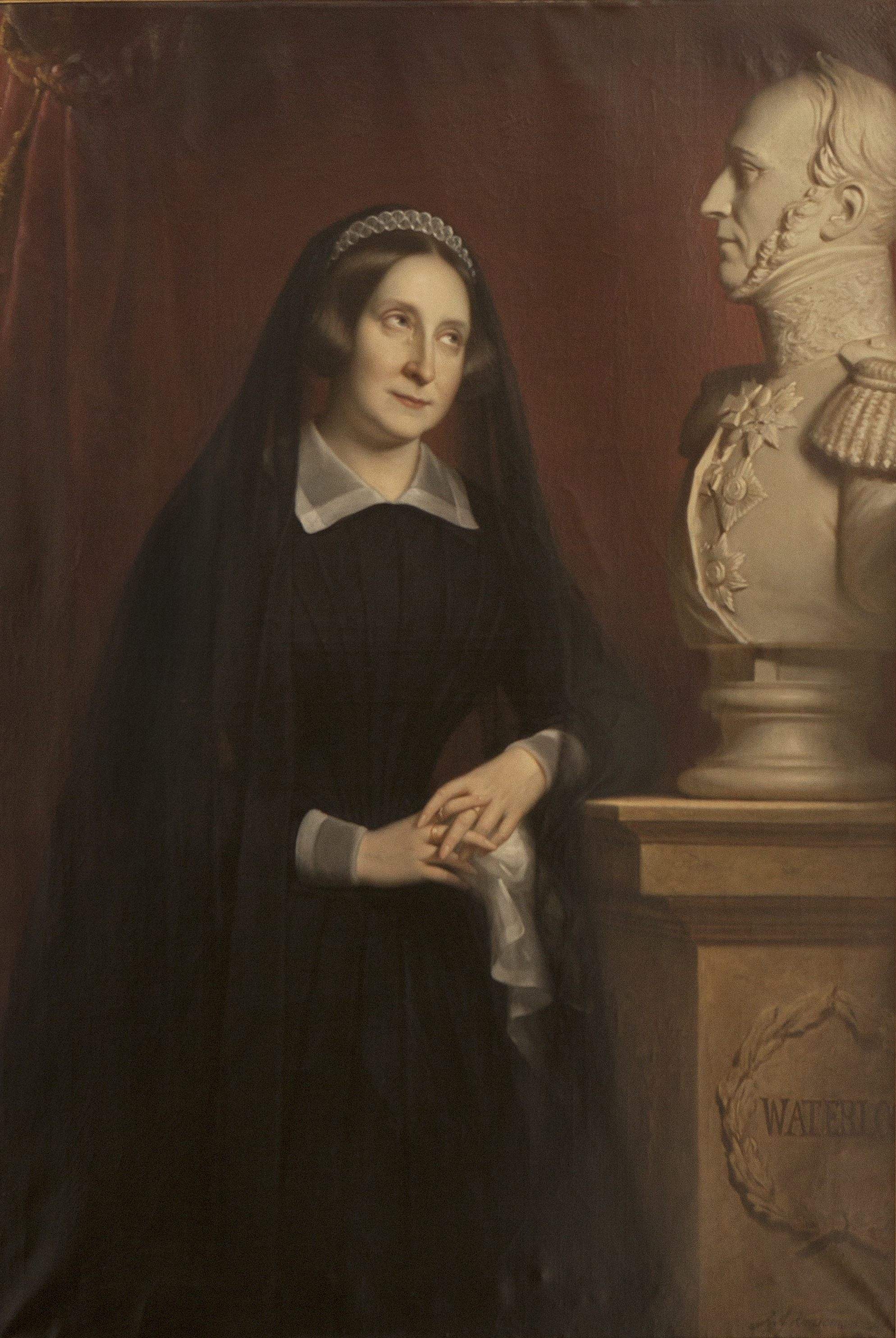 Queen Anna Paulowna as a widow, next to the bust of her husband King William ll.